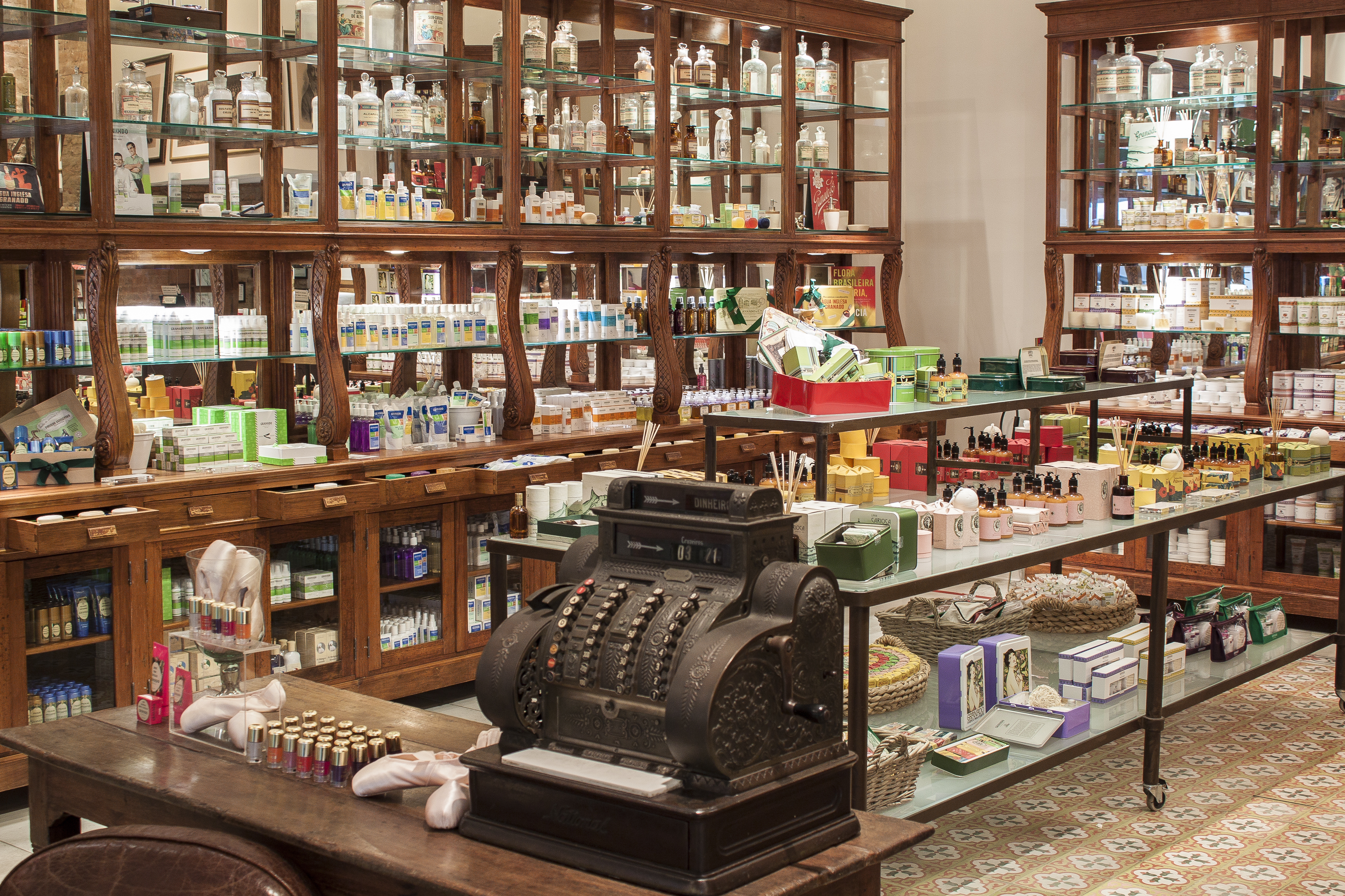 Loja Fashion Mall